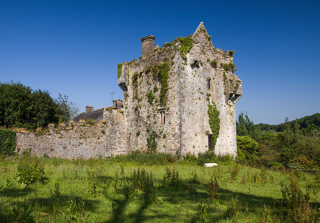 Castles of Munster: Tourin, Waterford Contained within the Tourin Demesne, and unmarked on the Discovery OS map, Tourin Castle probably dates from the early 17c. A four storey tower house, its first recorded occupier was Edward Gratrix, a tenant of owner Edmund Roche. The castle was eventually sold to the Nettles family in 1780.